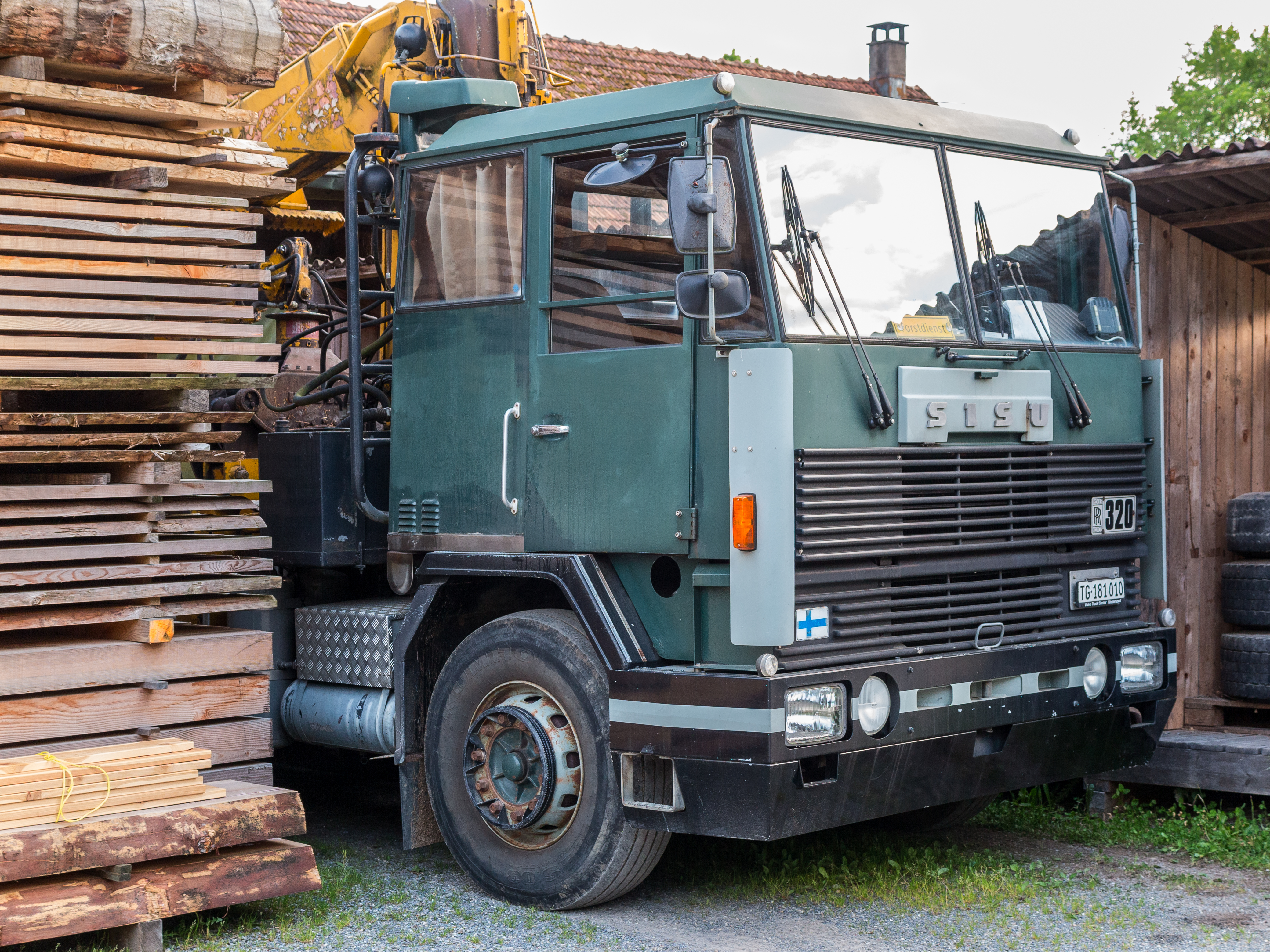 Sisu M-162 logging truck powered by Rolls-Royce diesel.